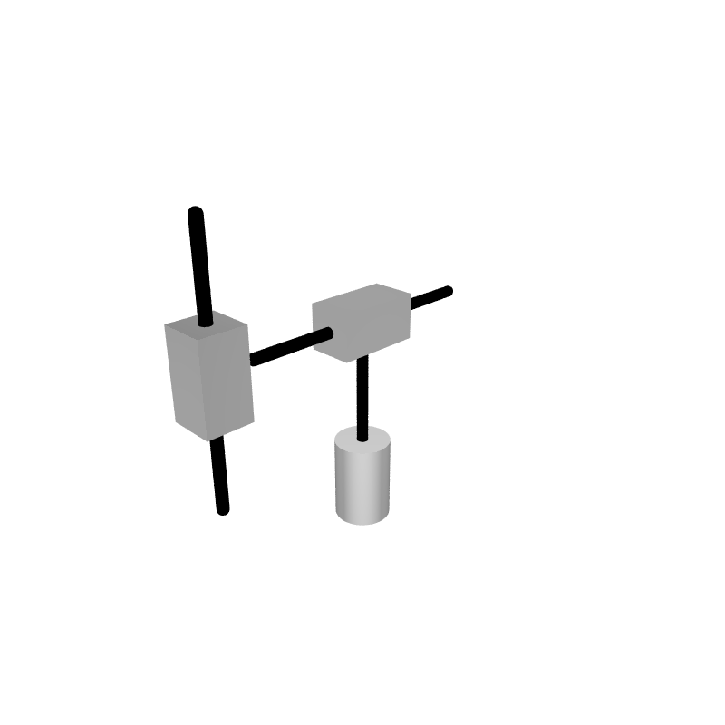 Kinematic diagram of cylindrical robot